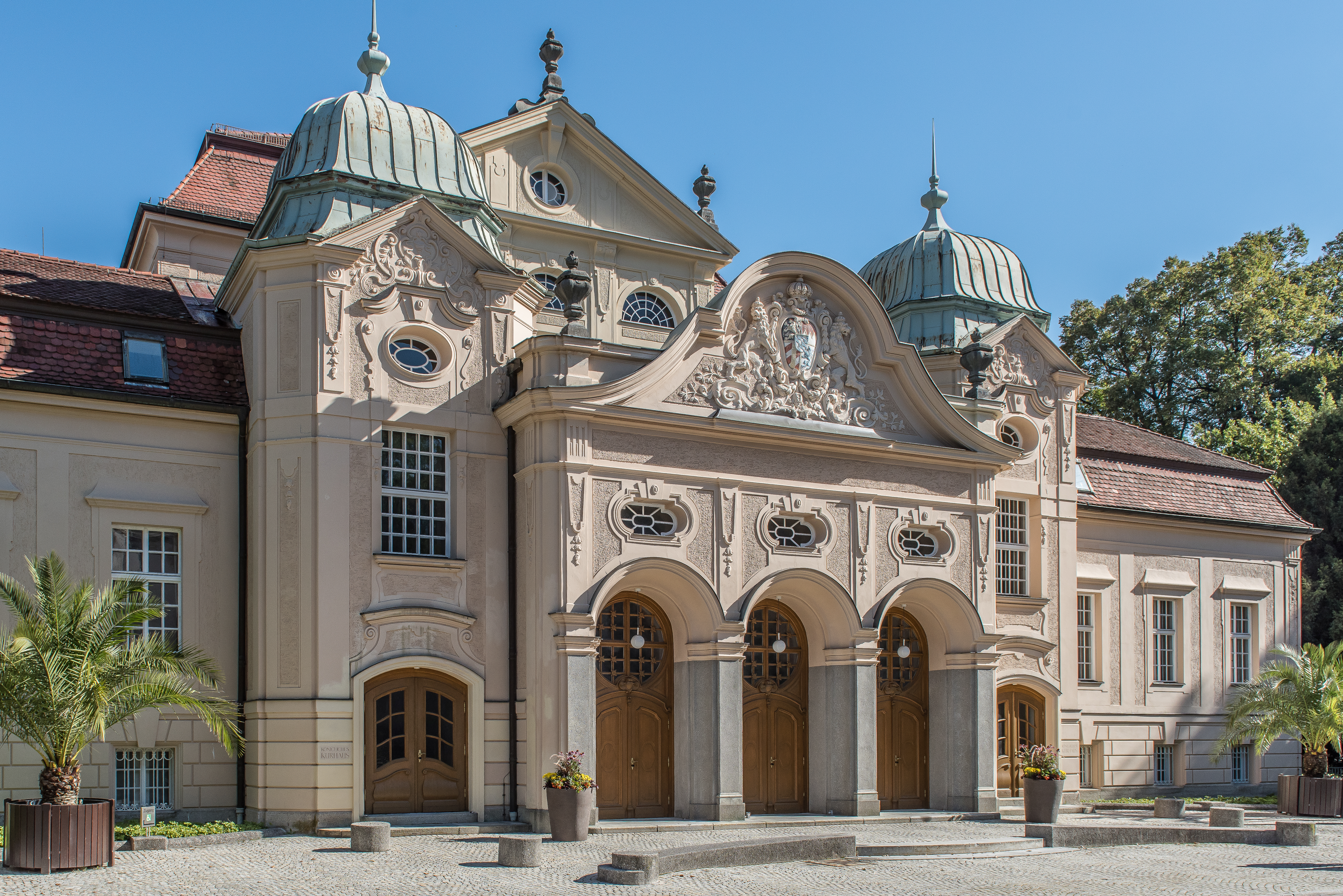 Königliches KurhausThis is a photograph of an architectural monument.